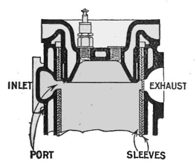 'Ch. II 'Fig. 22 Inlet stroke of the Knight engine A section through the cylinder head of a Knight sleeve valve engine. The valve sleeves are open to the inlet port (left). Between and above the sleeves is the junk head, the form of cylinder head used on these engines.